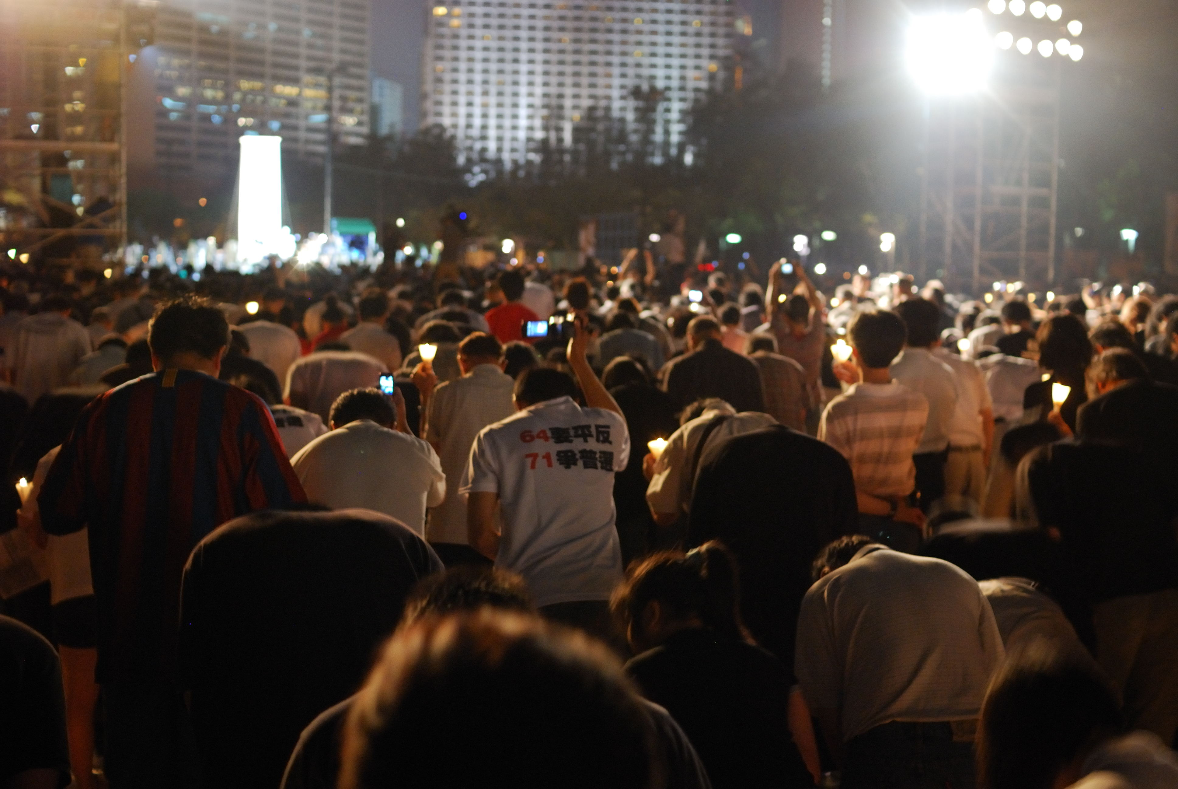 20th anniversary of the June 4th incident. A candlelight vigil was held in HK on June 4, 2009.